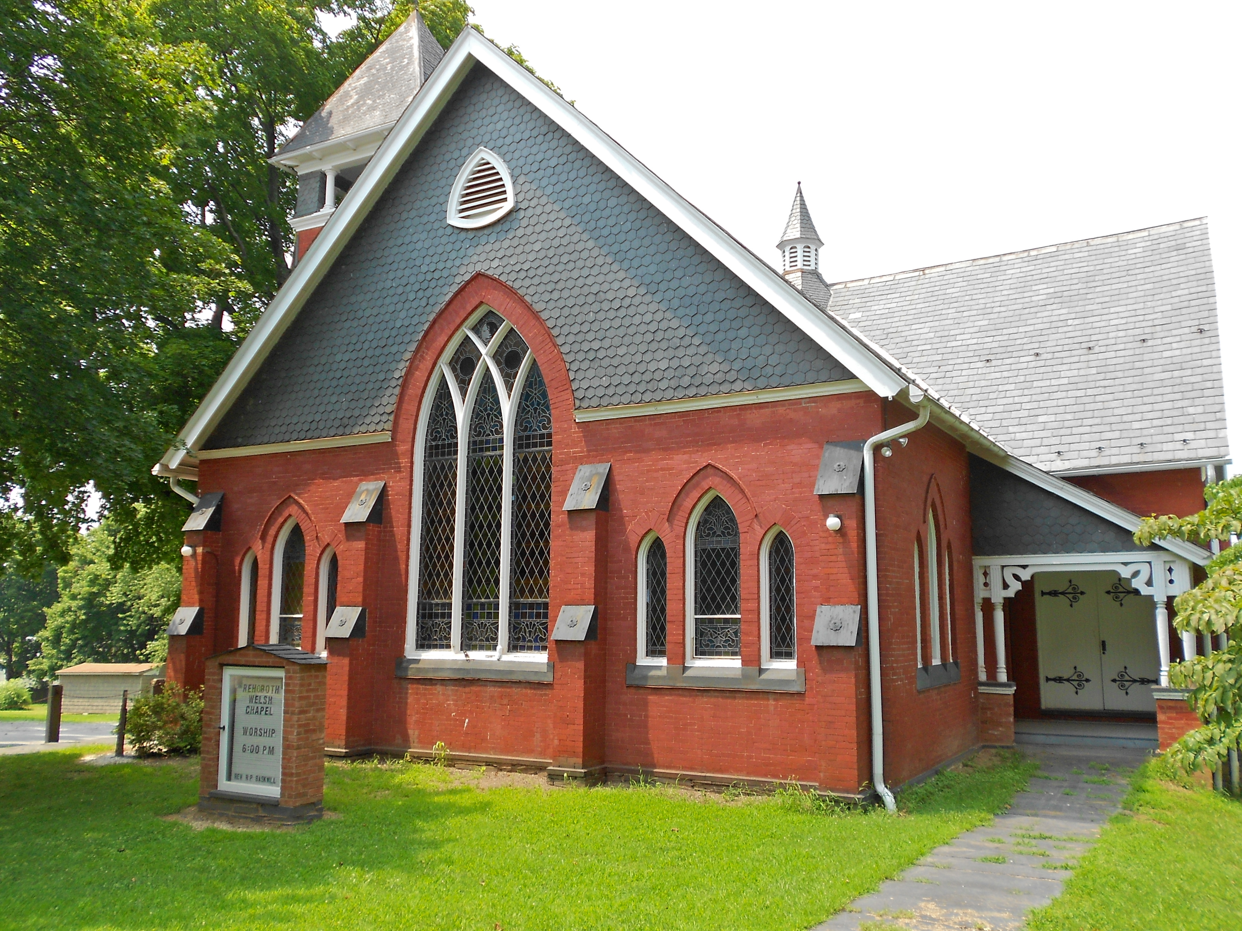 Building on Main Street in Delta, Pennsylvania (part of the Delta Historic District), which covers all of Main Street in Delta.